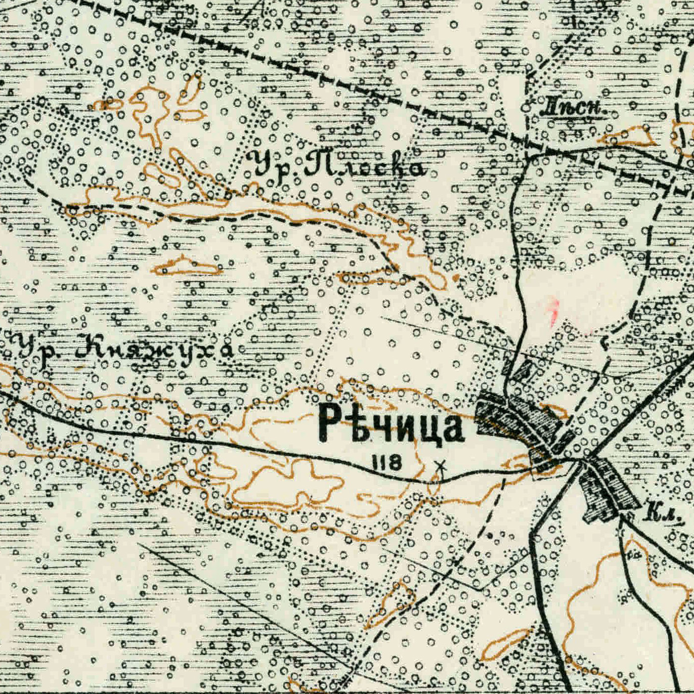 Richytsia on the map "Новая Топографическая Карта Западной России", XXIV 21, 1916.